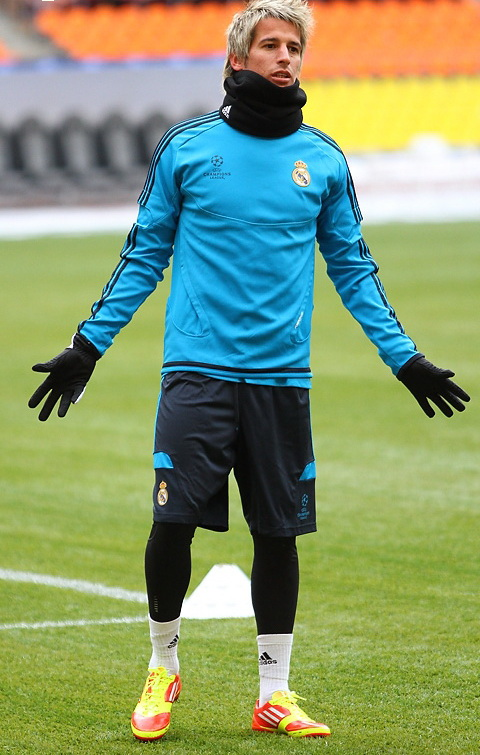 Fábio Coentrão